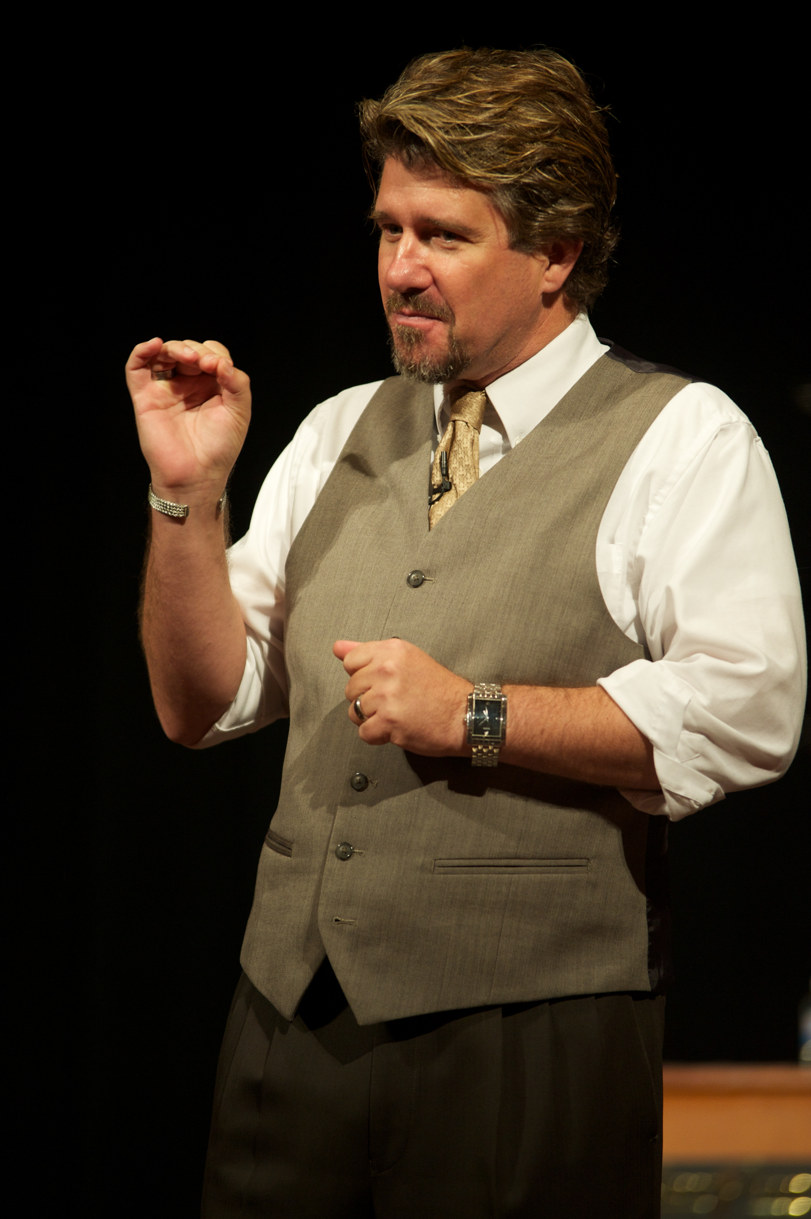 Steven Shaw A.K.A. (Banachek) at The Amaz!ng Meeting 8 - TAM8